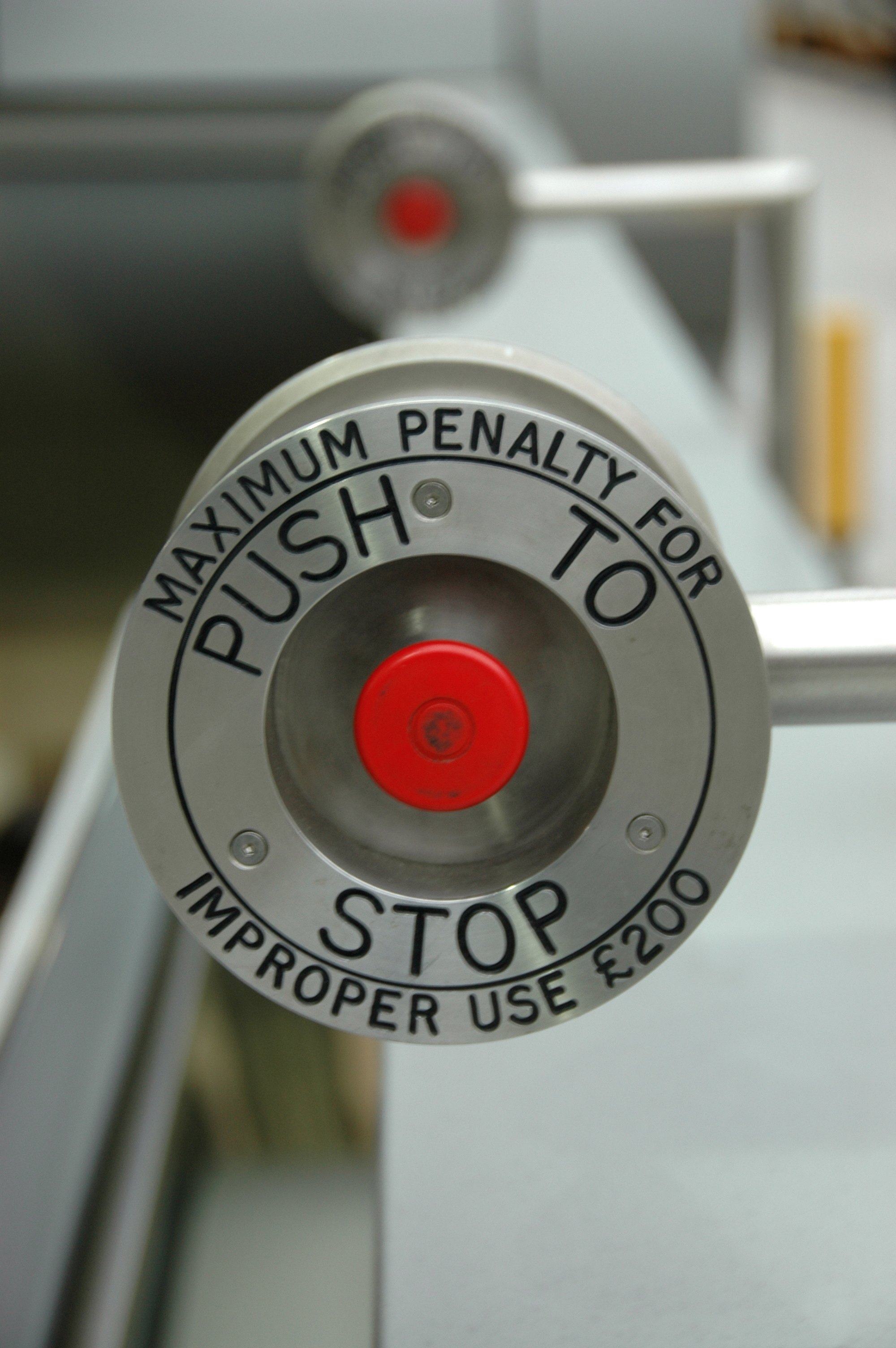 Push The Button! Push to stop - maximum penalty for improper use £ 200 London, Waterloo station.